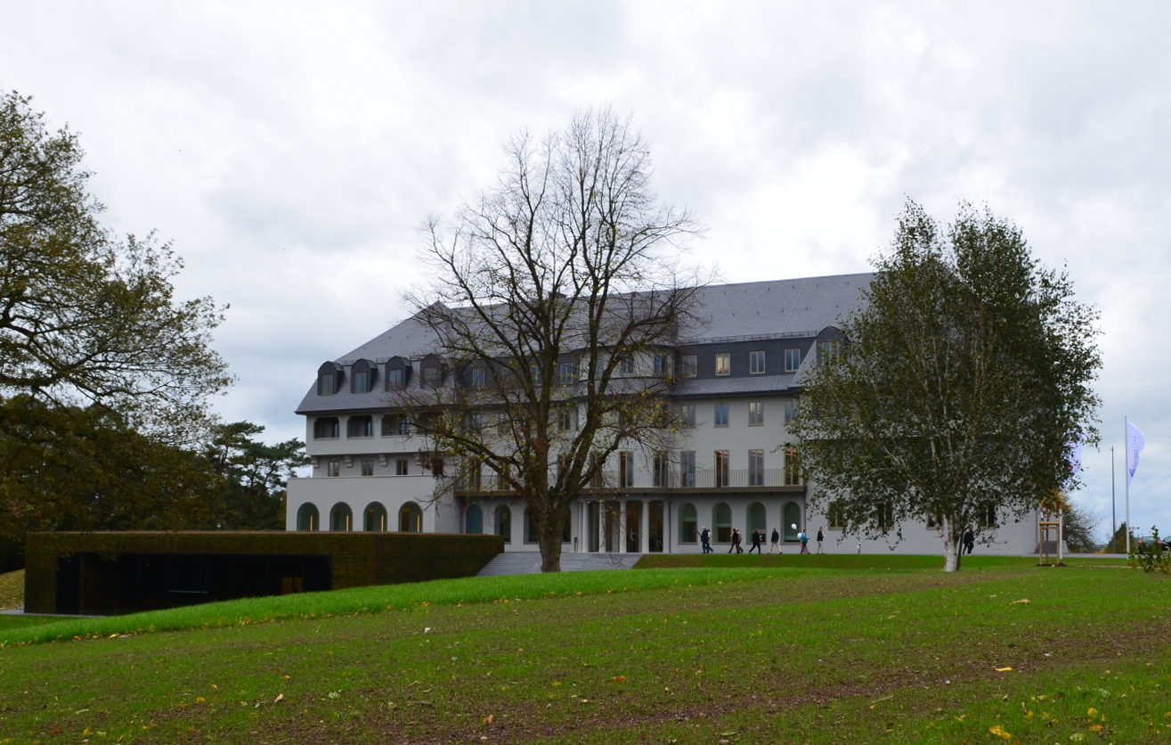 New Parliament of the German-speaking Community, Eupen (Belgium), on october 27th 2013, weekend of the official opening